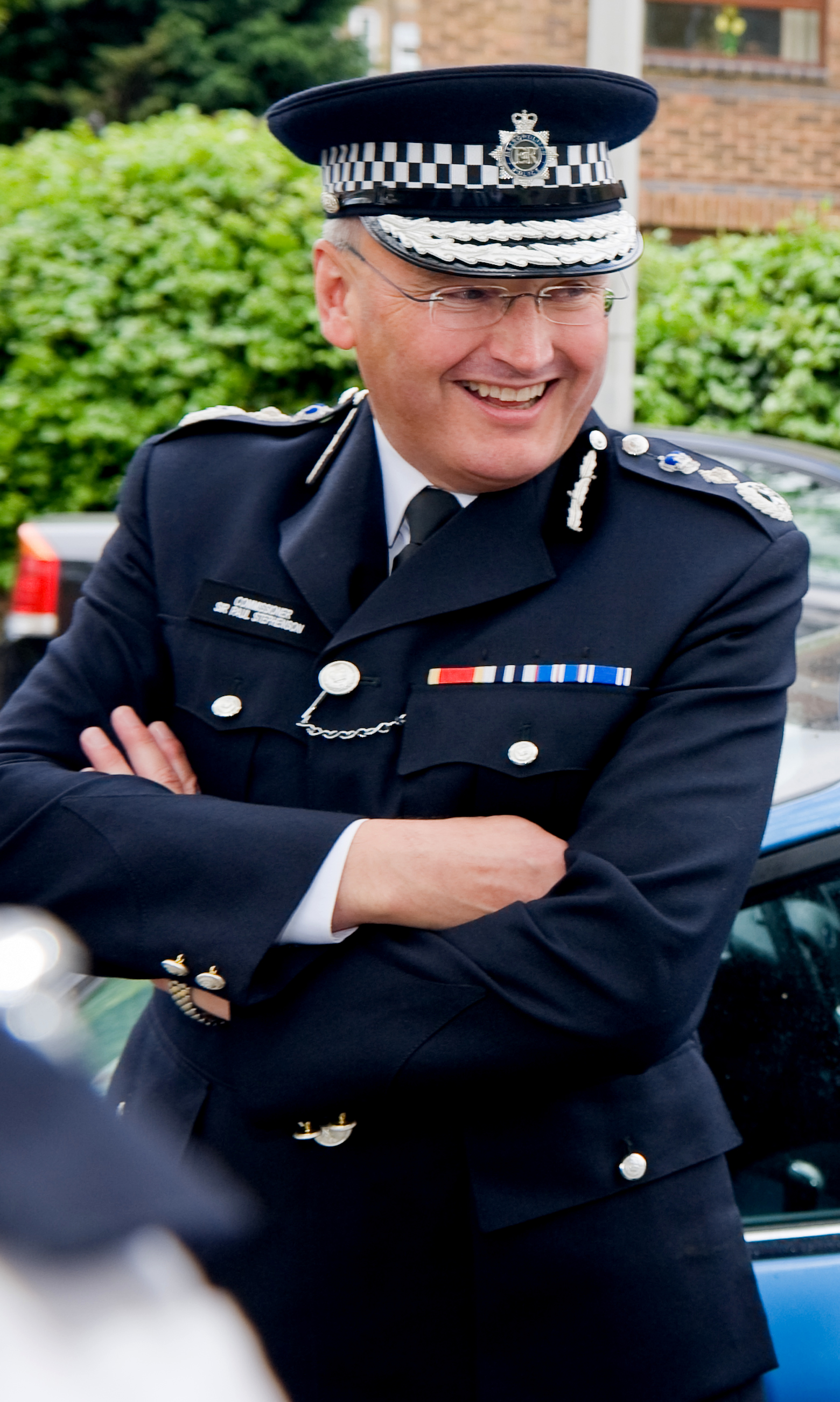 Theresa May chatting to Sir Paul Stephenson. Location: South London Photographer: Sarel Jansen